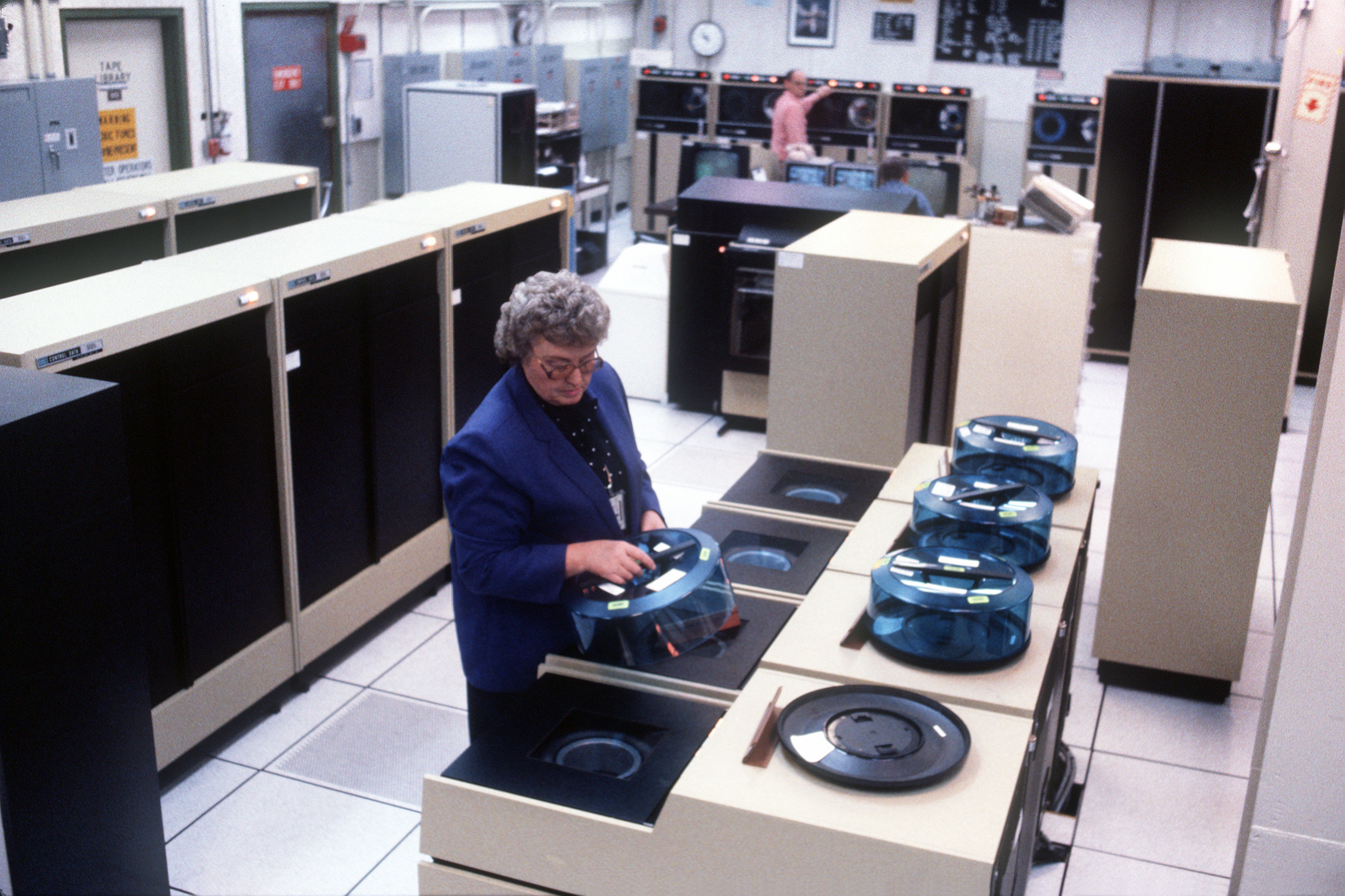 Elaine Penney of the 6th Missile Warning Squadron works in the computer room for the AN/FPS-115 Pave Paws phased array warning system RADAR. The system is designed to detect Missiles launched at North America from submarines operating in the Atlantic Ocean.Location: CAPE COD AIR FORCE STATION, MASSACHUSETTS (MA) UNITED STATES OF AMERICA (USA)